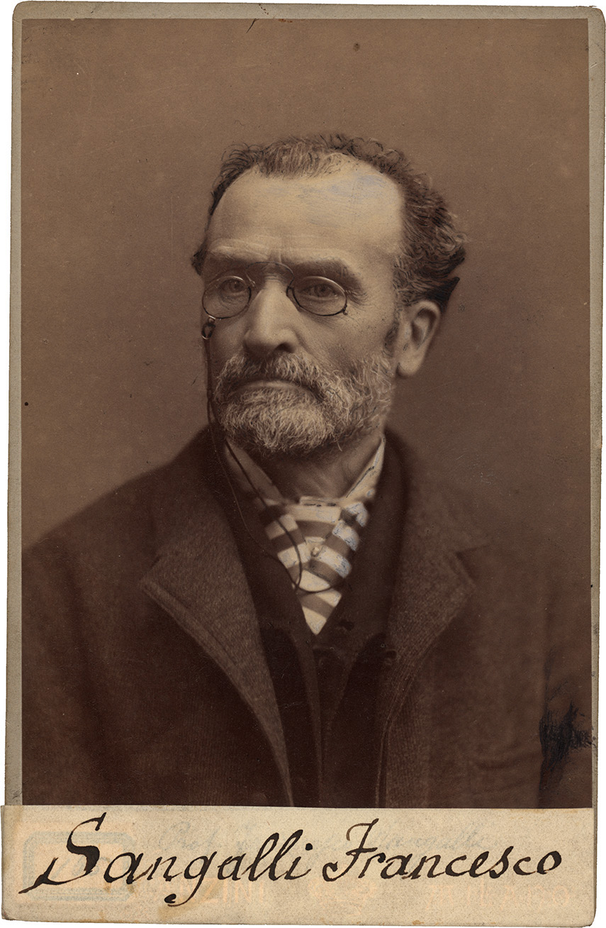 Portrait of Francesco Sangalli, composer (1820-1902). Photo by Giovan Battista Ganzini, before 1902.